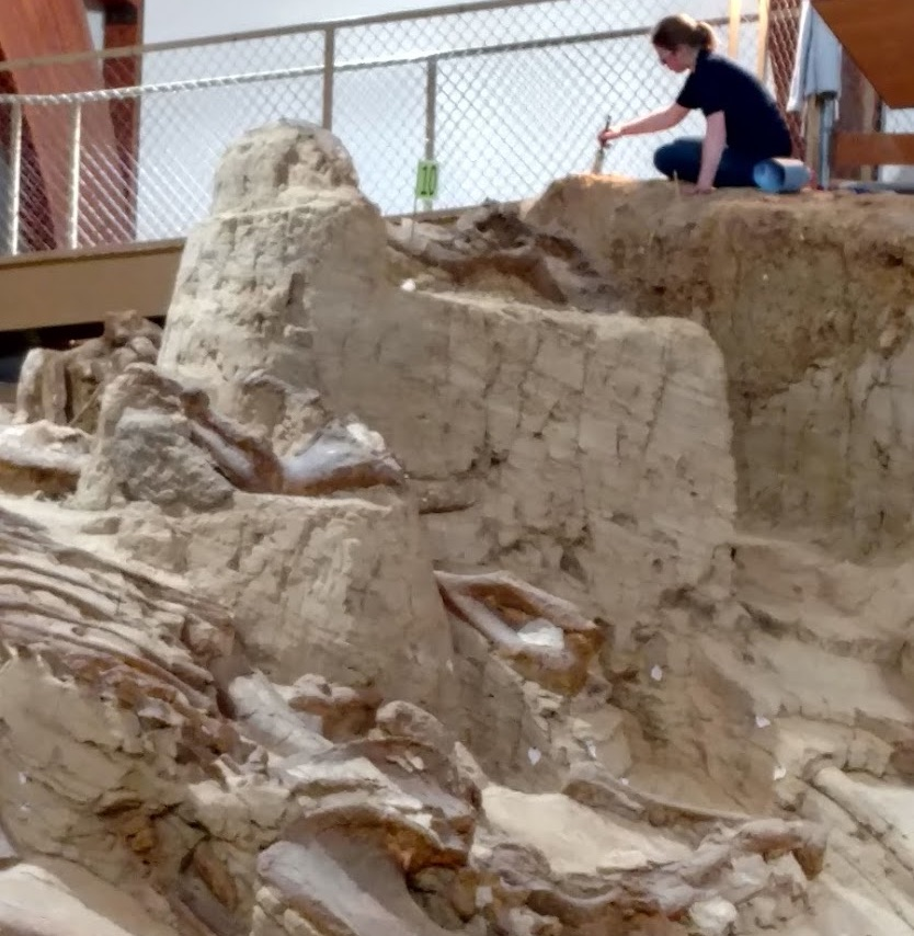 Digger, and bones, Mammoth Site, Hot Springs